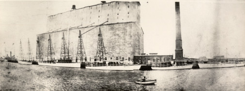 A view across the waters of Buffalo Bayou at the Port of Houston. A building provides a backdrop for a row of lifting towers lining the dock. Boats are moored along the dock.